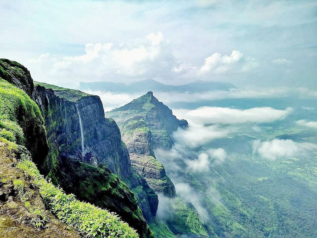 Nashik weather